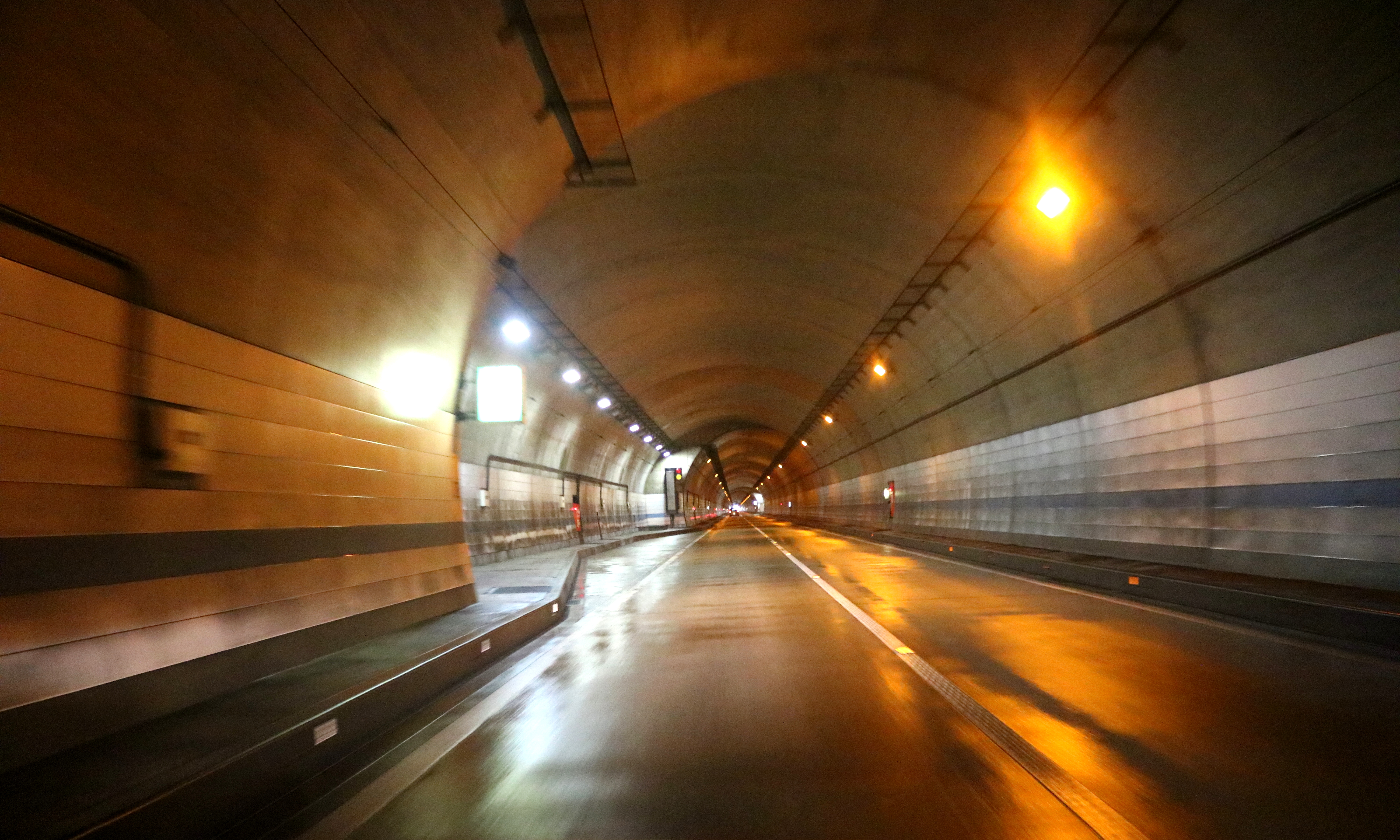 Ibushiyama Tunnel on Gifu Prefectural Road Route 90 (Furukawa-Kiyomi line) in Unehata, Furukawacho, Hida, Gifu Prefecture, Japan Canon EOS Kiss X8i